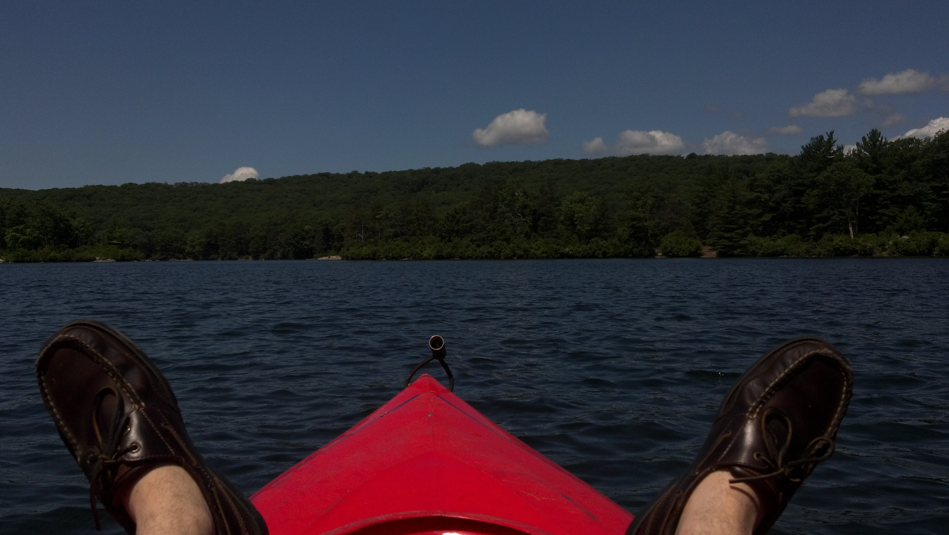 A picture of a kayak on Lake Tiorati from the boater's perspective. View is of one of the islands on Lake Tiorati.